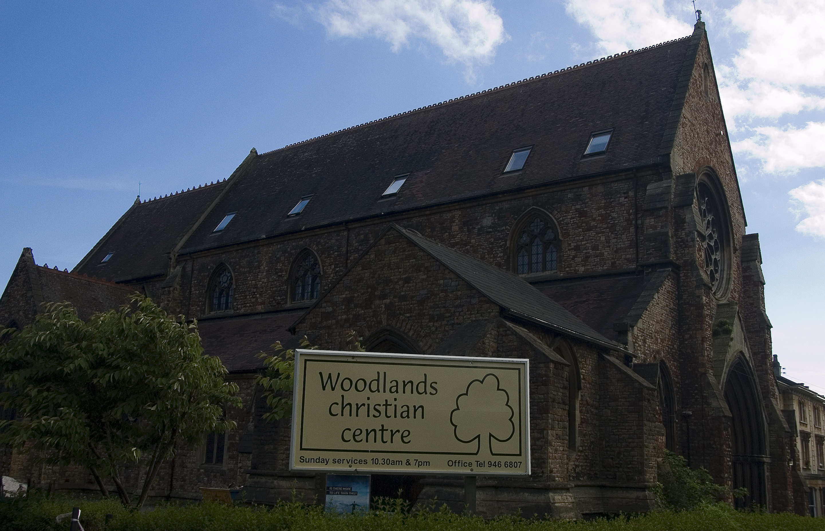 Woodlands Church, Belgrave Road, Bristol, England, seen from the northeast